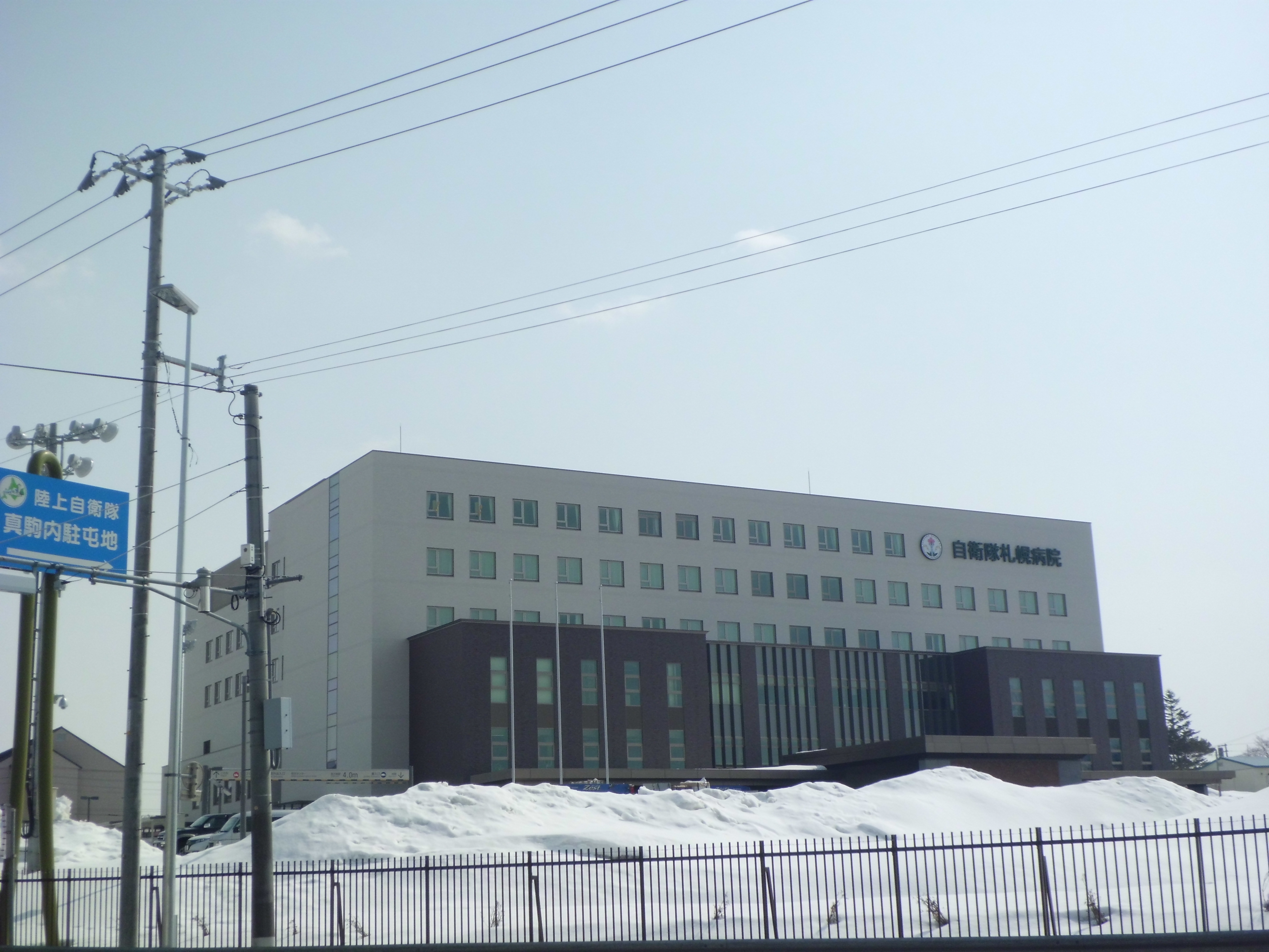 Japan Self Defense Forces Sapporo Hospital